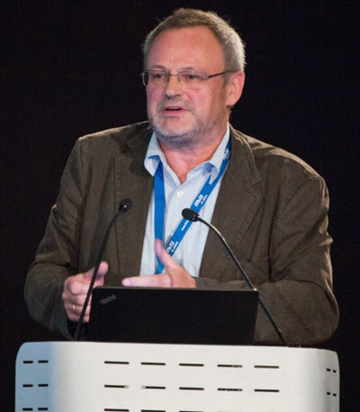 Jürgen Handke talking about digital teaching in the 21st century at St Pölten University, Austria